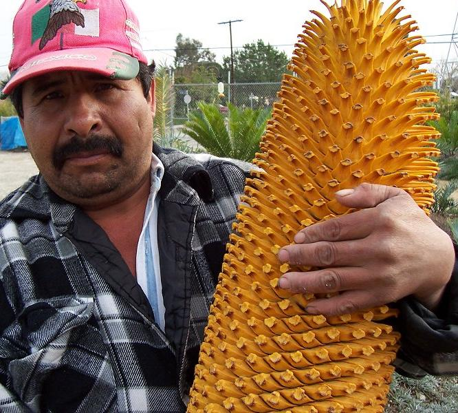 Encephalartos woodii cone (with Fernando) in Southern California.